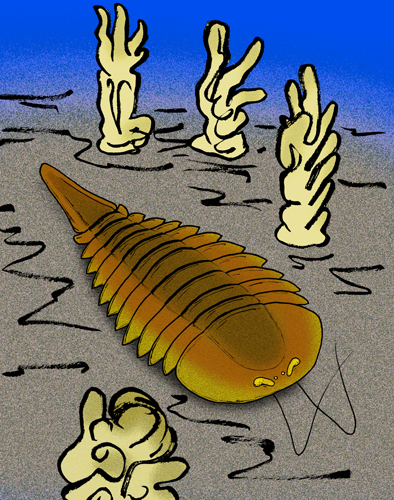 Reconstruction of the strabopid arthropod, Strabops thacheri, from the Late Cambrian-aged Potosi Dolomite in Missouri.